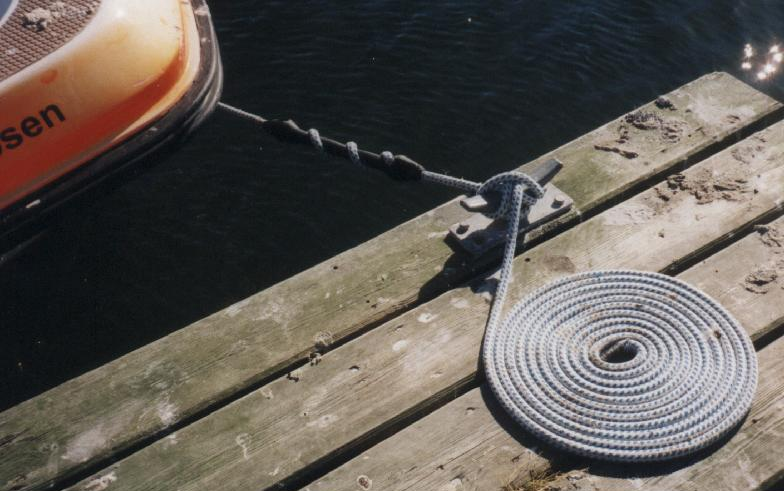 Flemish disc or mat as seen on boats and inmarinas